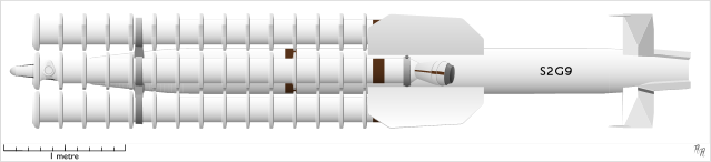 Armstrong Whitworth Sea Slug Mk.II GWS.2 missile, drawn using XaraX software. Originally uploaded to EN Wikipedia as Image:Sea Slug missile.png by Emoscopes 17 November 2005; new version uploaded by Emoscopes 19 November 2005.